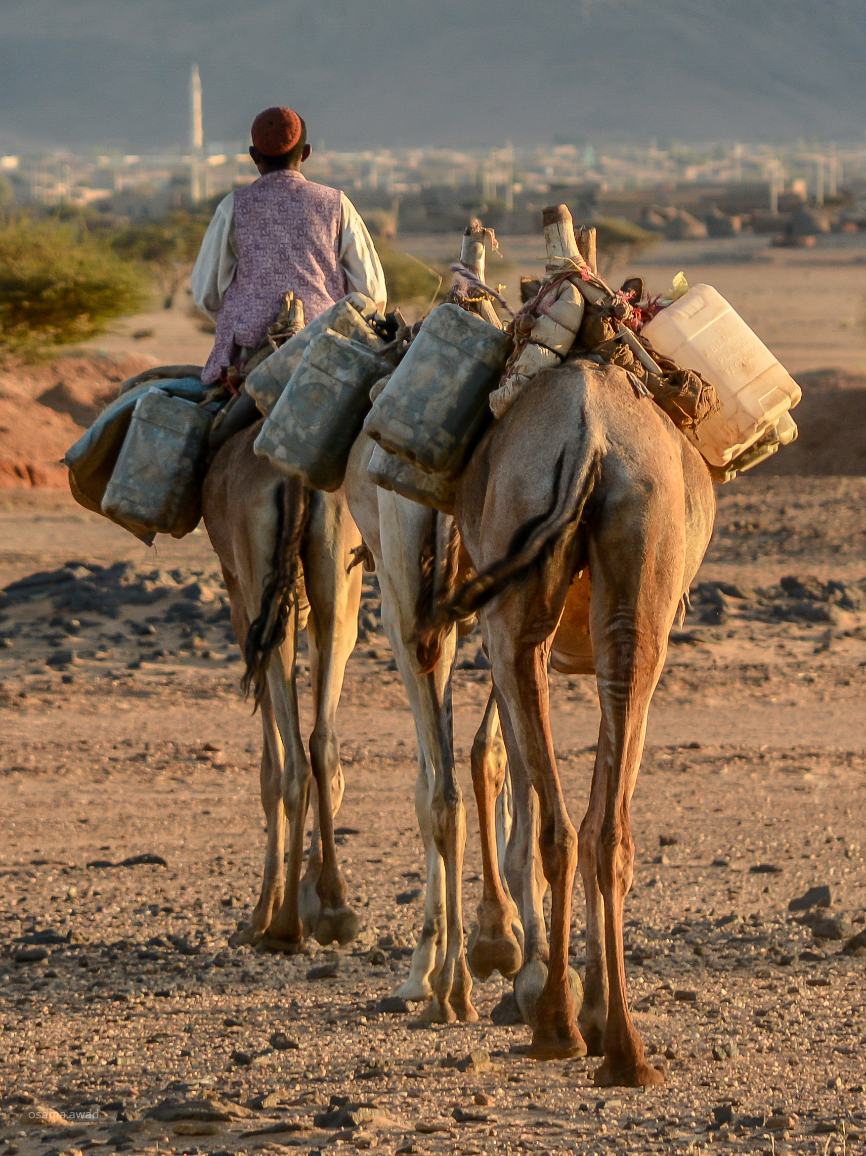 The River Nile State _ Sudan This is an image with the theme "Africa on the Move or Transport" from: Sudan